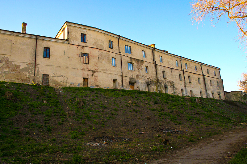 Bridgettines monastery in Lutsk